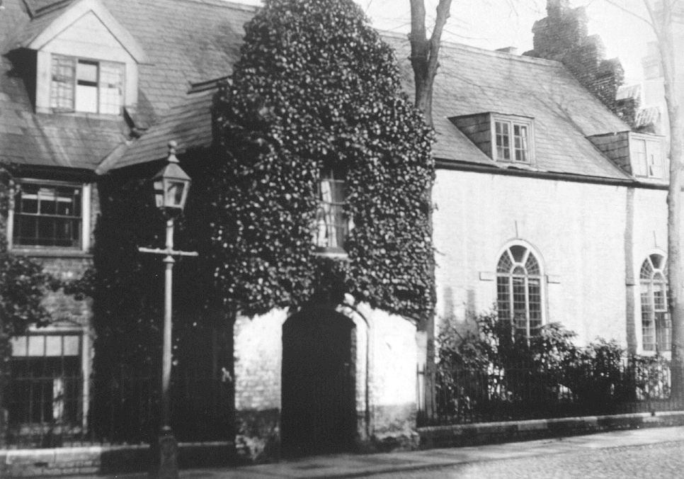 Old Grammar School, Wisbech, from the Wisbech Album: a collection of photographs of Wisbech & the surrounding area c.1870-1890 Cambridgeshire Collection C.66.2. In public domain by virtue of its age.